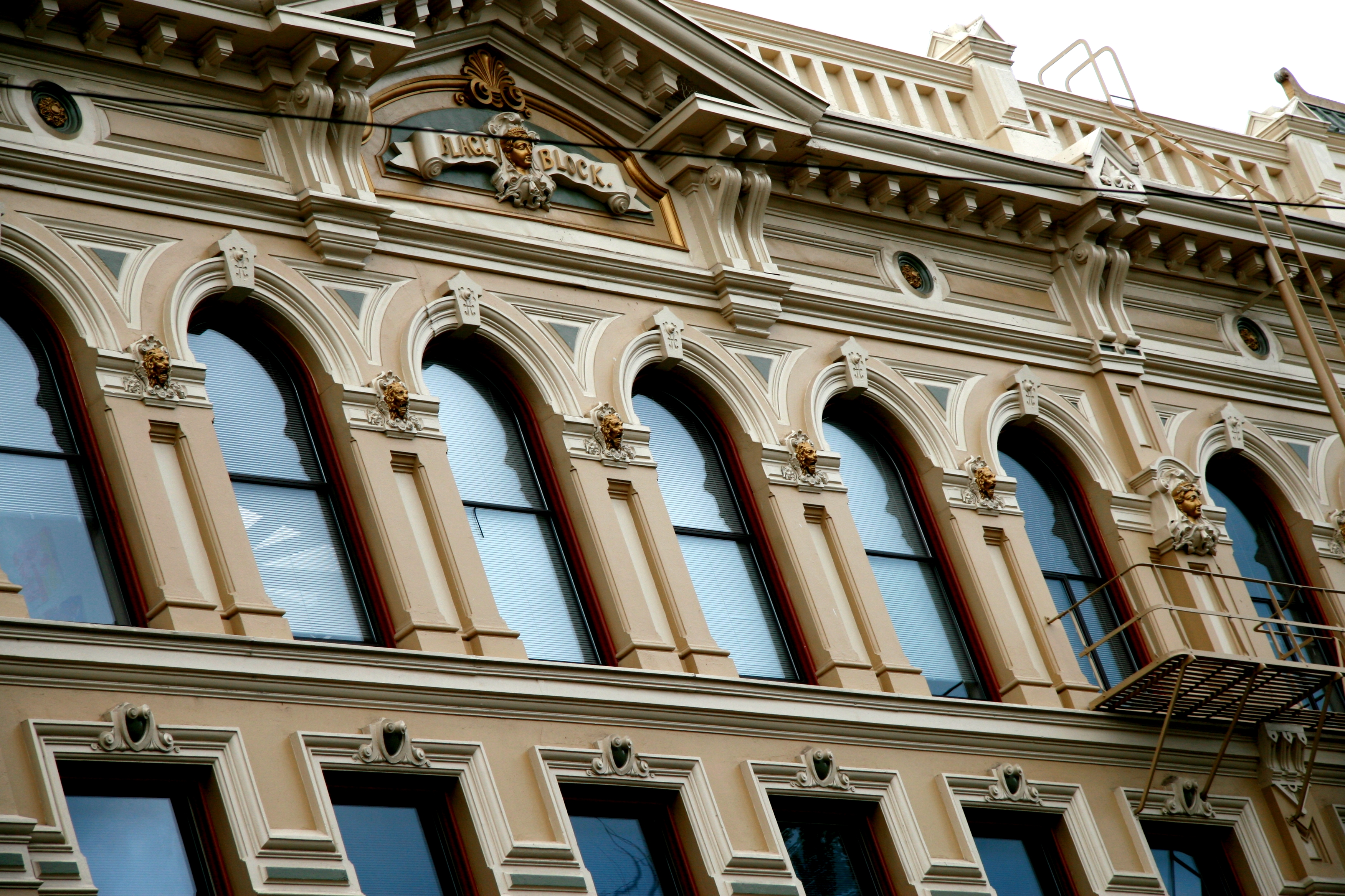 The historic Blagen Block (built 1888), located at 80 Northwest Couch Street in Portland, Oregon, United States, is a Portland Historic Landmark. It also lies within the Portland Skidmore/Old Town Historic District, which is a US National Historic Landmark.